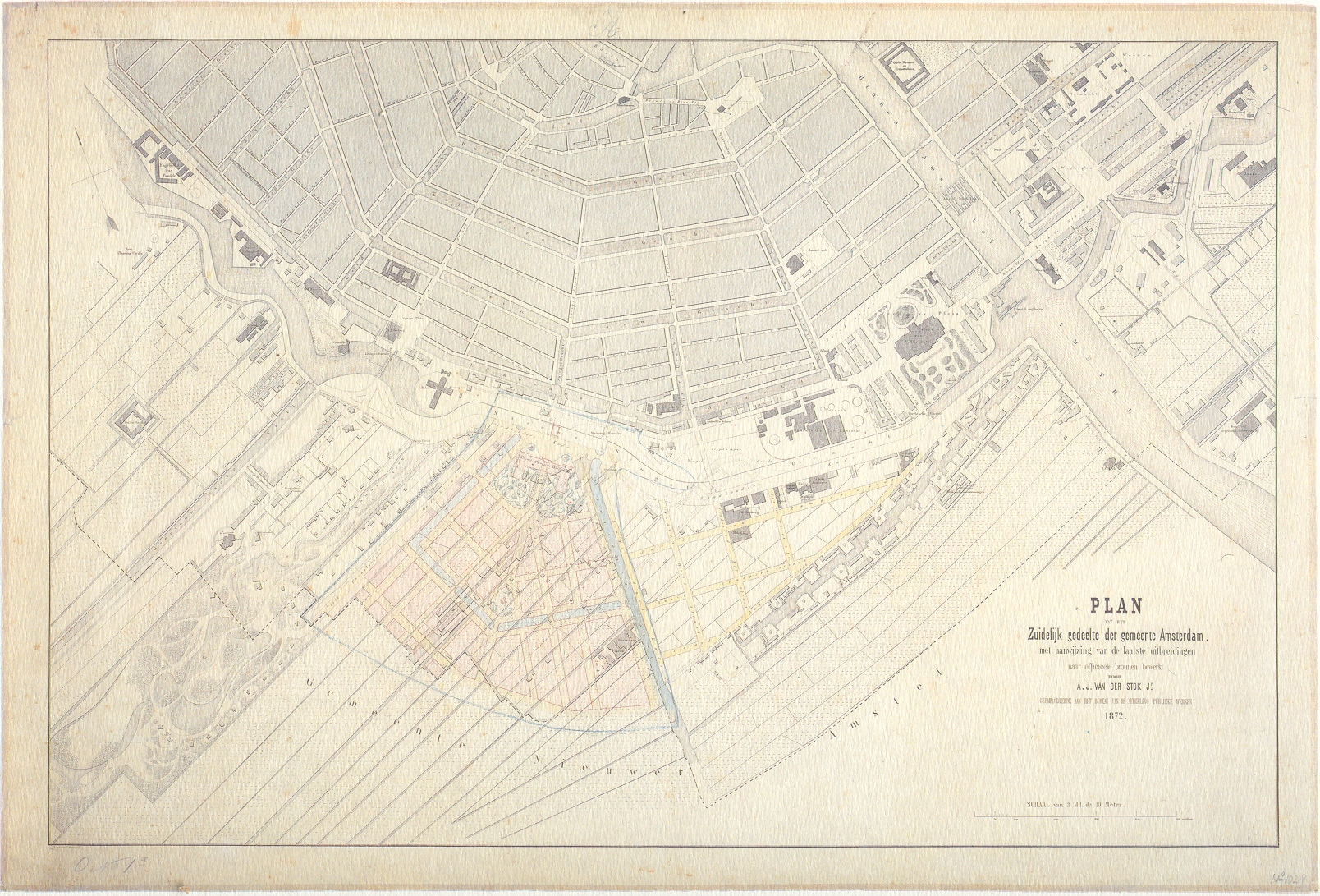 Plan south side of the city of Amsterdam 1872